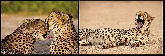 cheetahs at The Arabian Wildlife Park on Sir Bani Yas Island, Abu Dhabi, United Arab Emirates